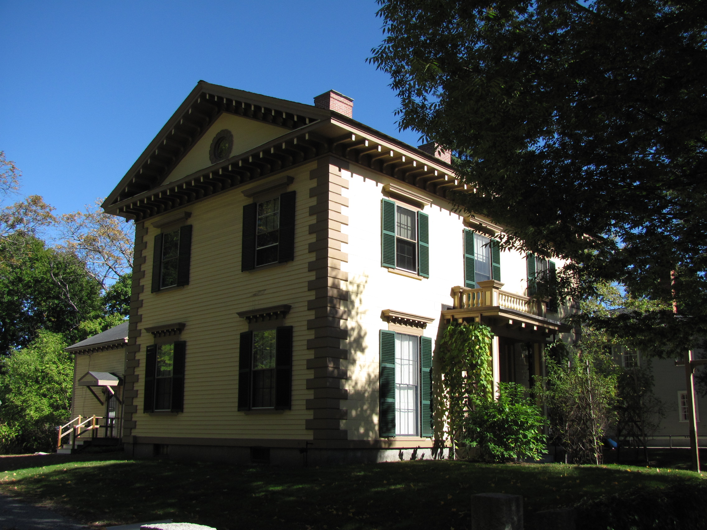 Gov. George S. Boutwell House, Groton Massachusetts